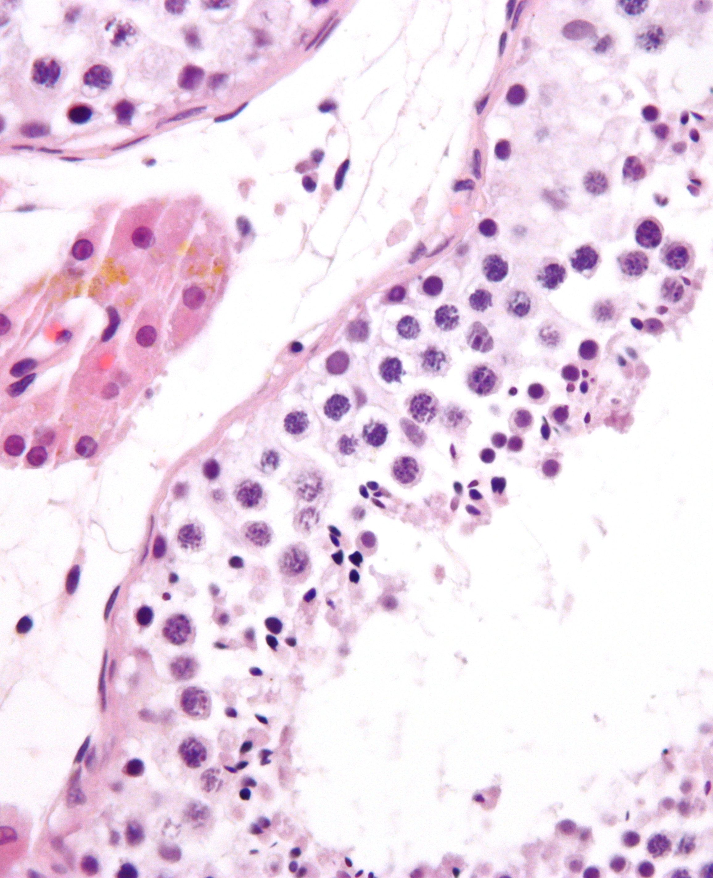 Micrograph of a seminiferous tubule with sperm. H&E stain. Related images High mag. Low mag.